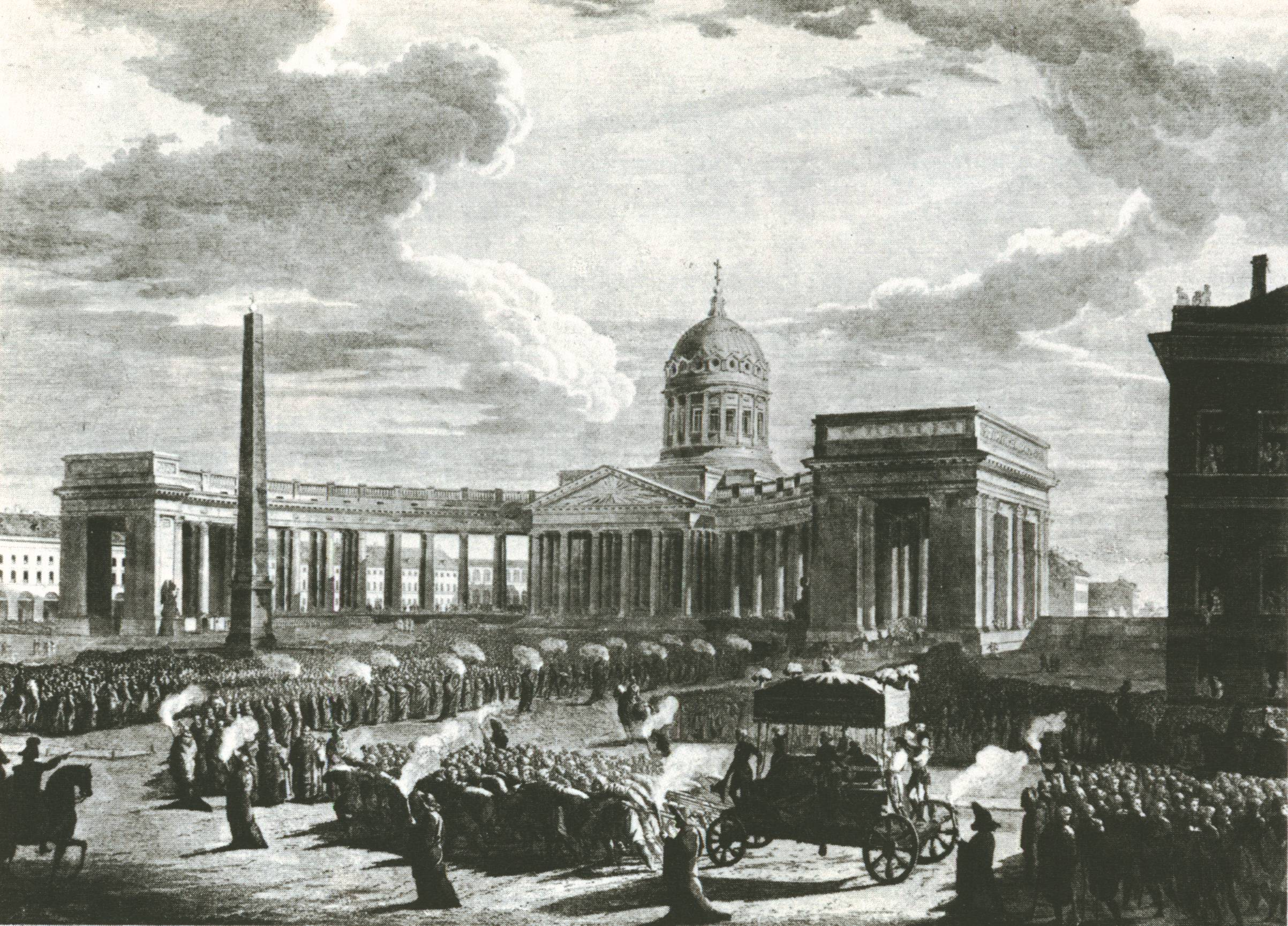 Burial of Michail Illarionovich Kutuzov, engraving, 43,8x56,5 cm